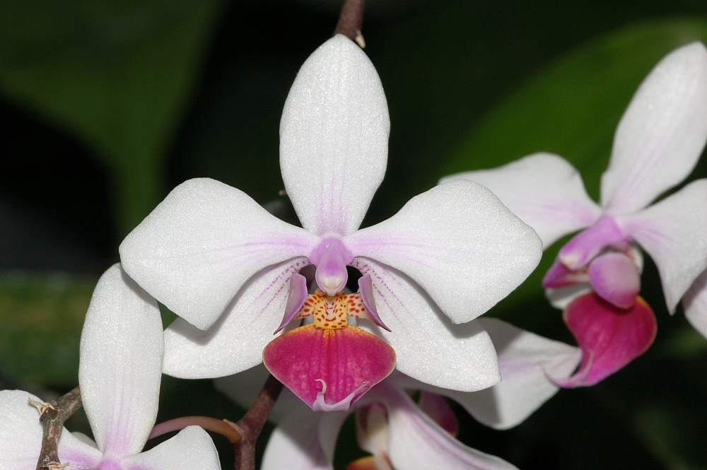 Phalaenopsis intermedia, known from Philippines, photographed in the Botanical Garden Berlin, Germany